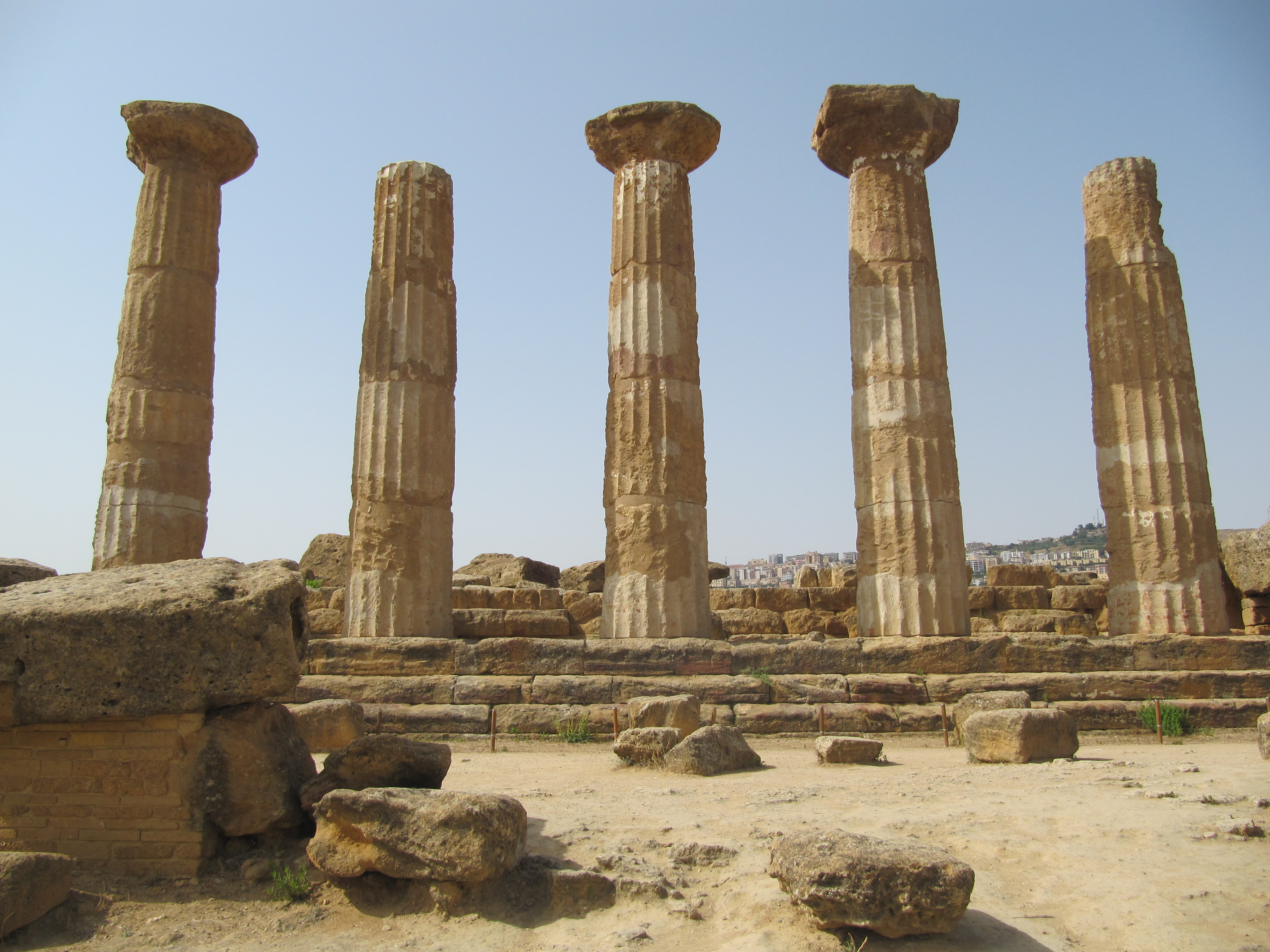 Agrigento, Sicily, Italy. Temple of Heracles.